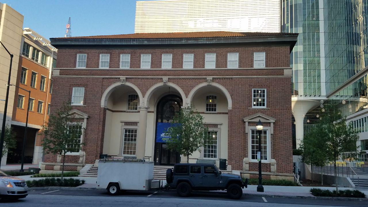 Front view of the Crum & Forster Building in Atlanta, Georgia.